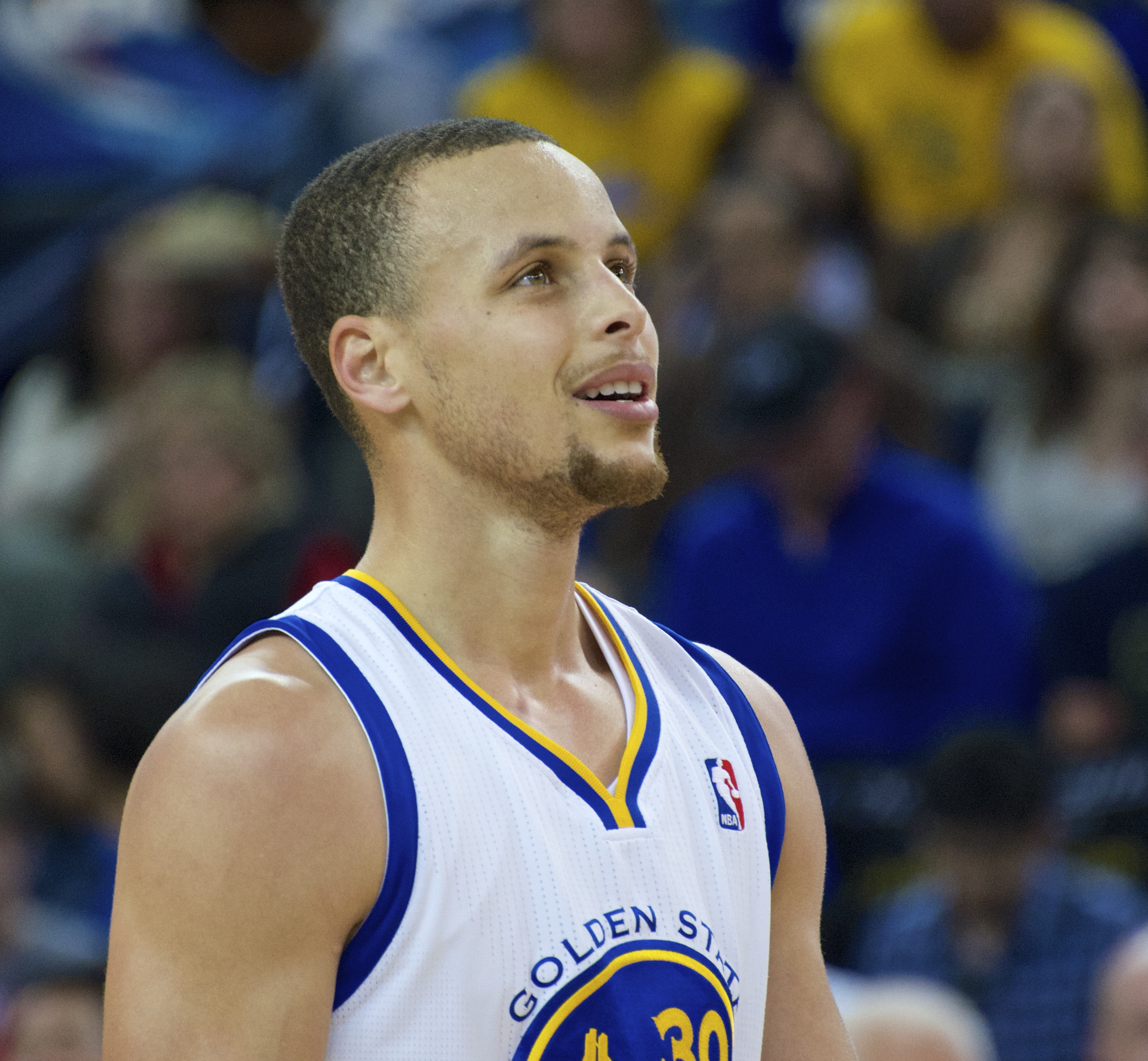 2014-04-06, Warriors vs Jazz, Oracle arena, Oakland, California